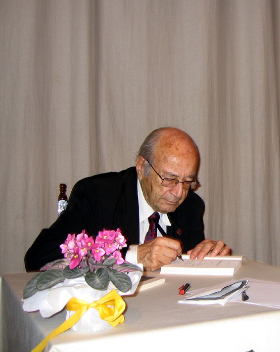 Hıfzı Topuz in Mersin